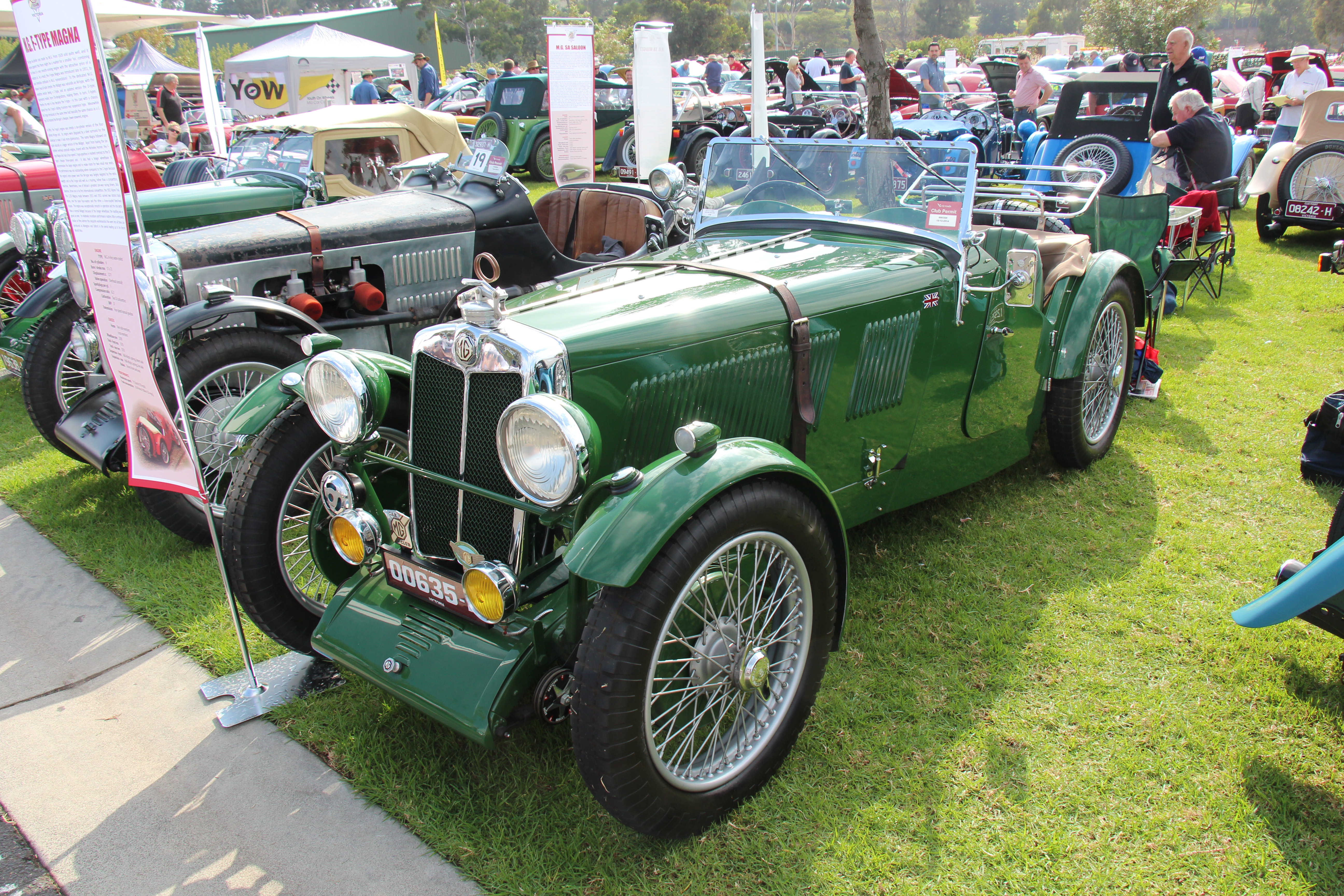 The MG F-type Magna was a 6 cylinder engined car produced from October 1931 to 1932. It was also known as the 12/70. As Morris had recently taken over Wolseley, the 1271cc engine from the Wolseley Hornet was used in this car, it got twin SU carburettors. The chassis in the 6 cyl Magna was 10 inches longer than the 4 cyl Midget.